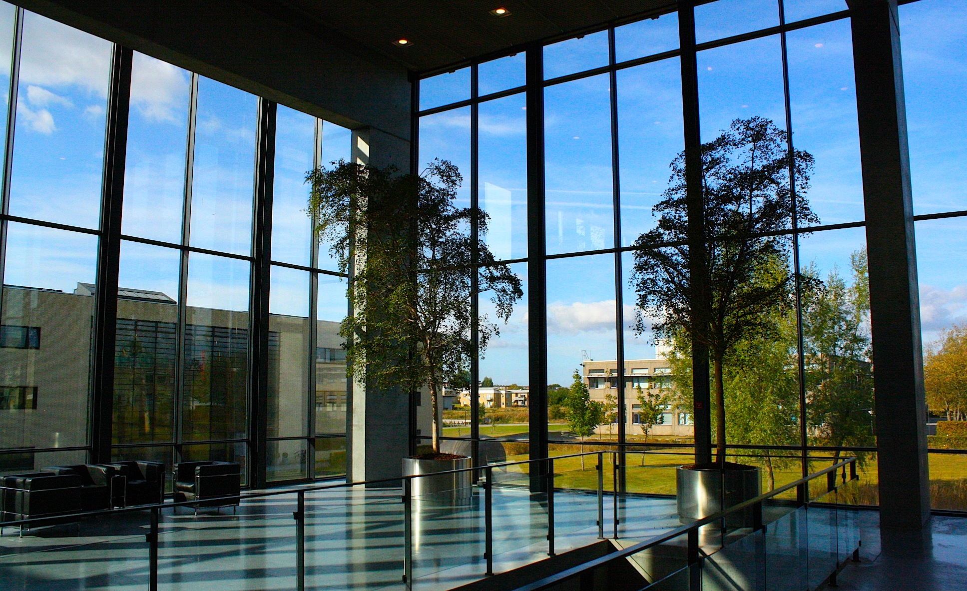 Roskilde University